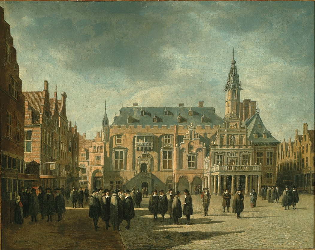 This image is available from the Netherlands Institute for Art Historyunder digital ID 3487. This tag does not indicate the copyright status of the attached work. A normal copyright tag is still required. See Commons:Licensing.